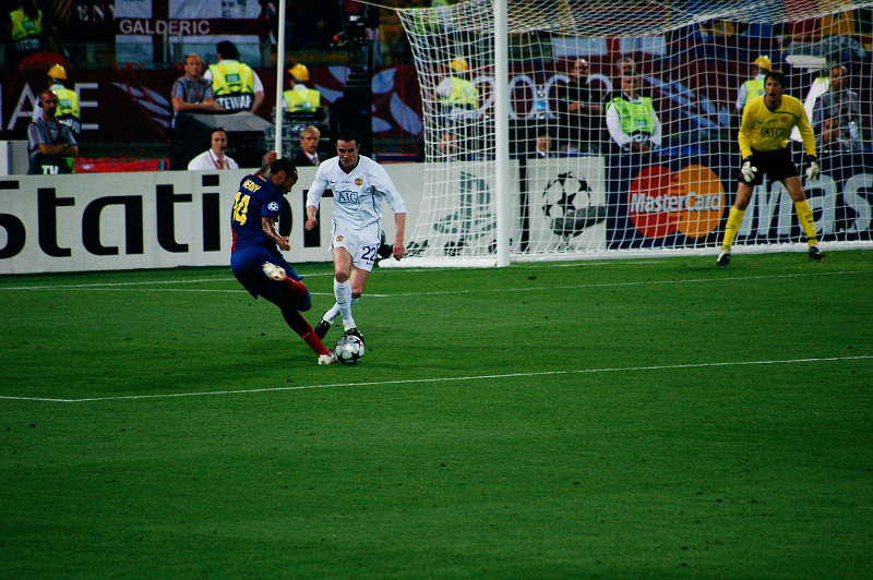 Thierry Henry of Barcelona defended by John O'Shea of Manchester United, Edwin van der Sar in goal